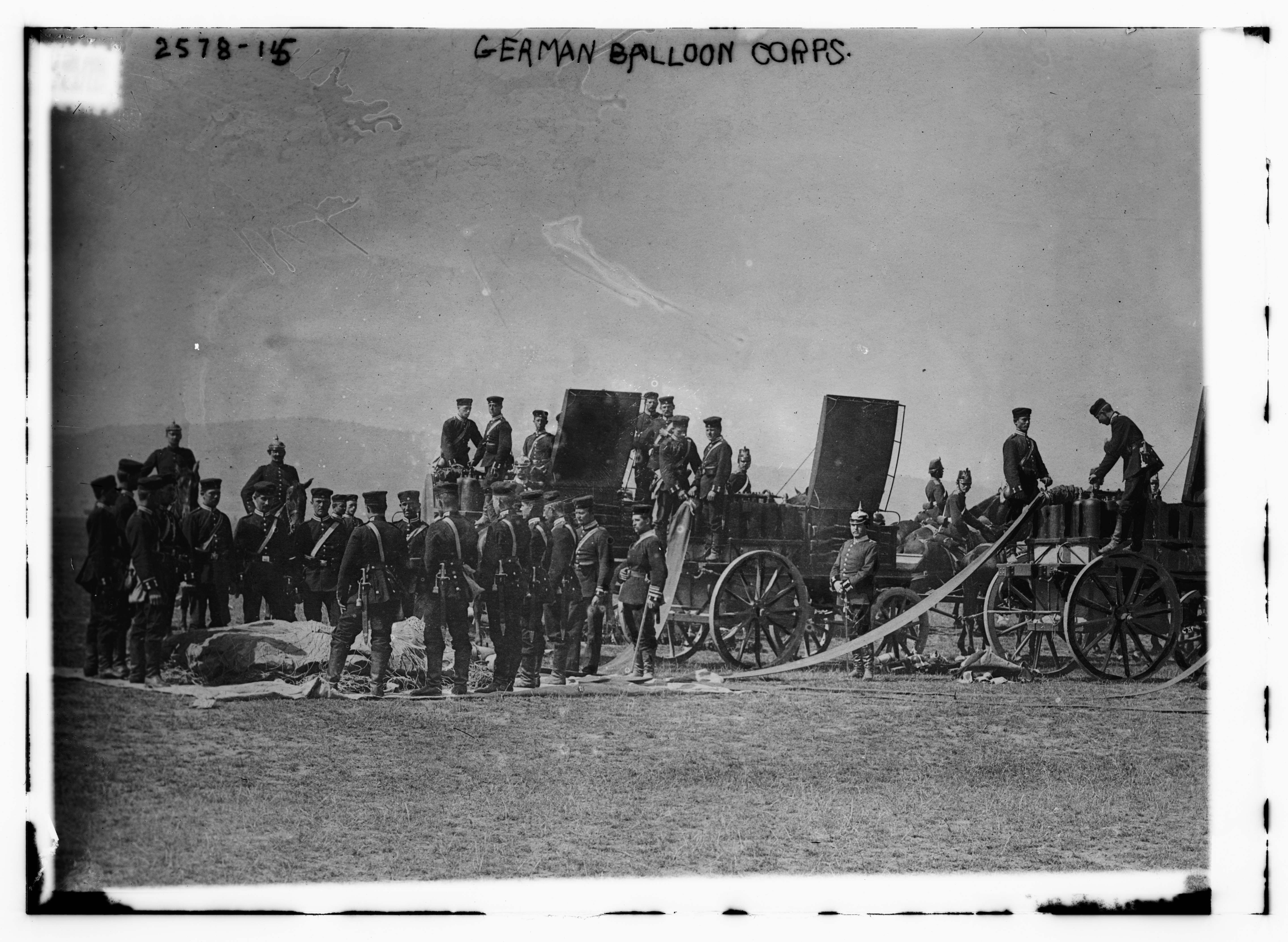 Title: German balloon corps Abstract/medium: 1 negative : glass ; 5 x 7 in. or smaller.